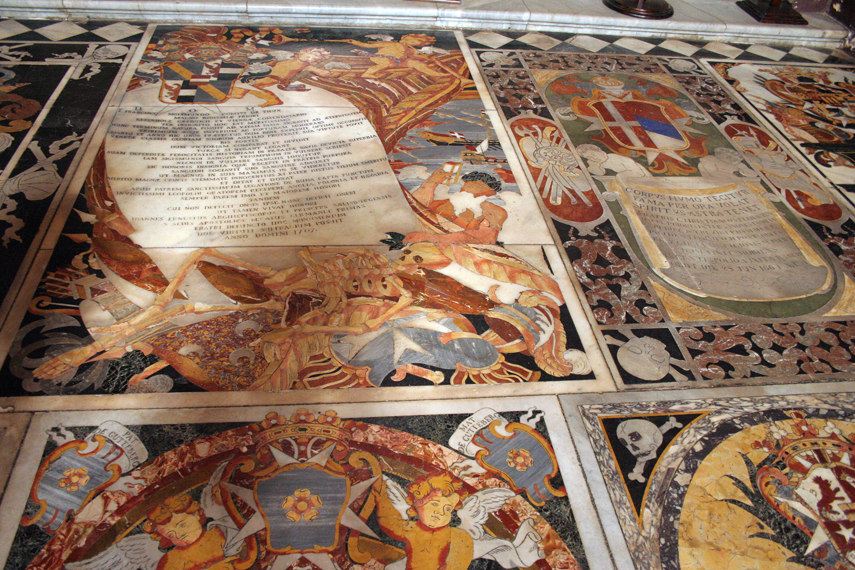 Malta, Valletta, St. John's Co-Cathedral, tomb slabs